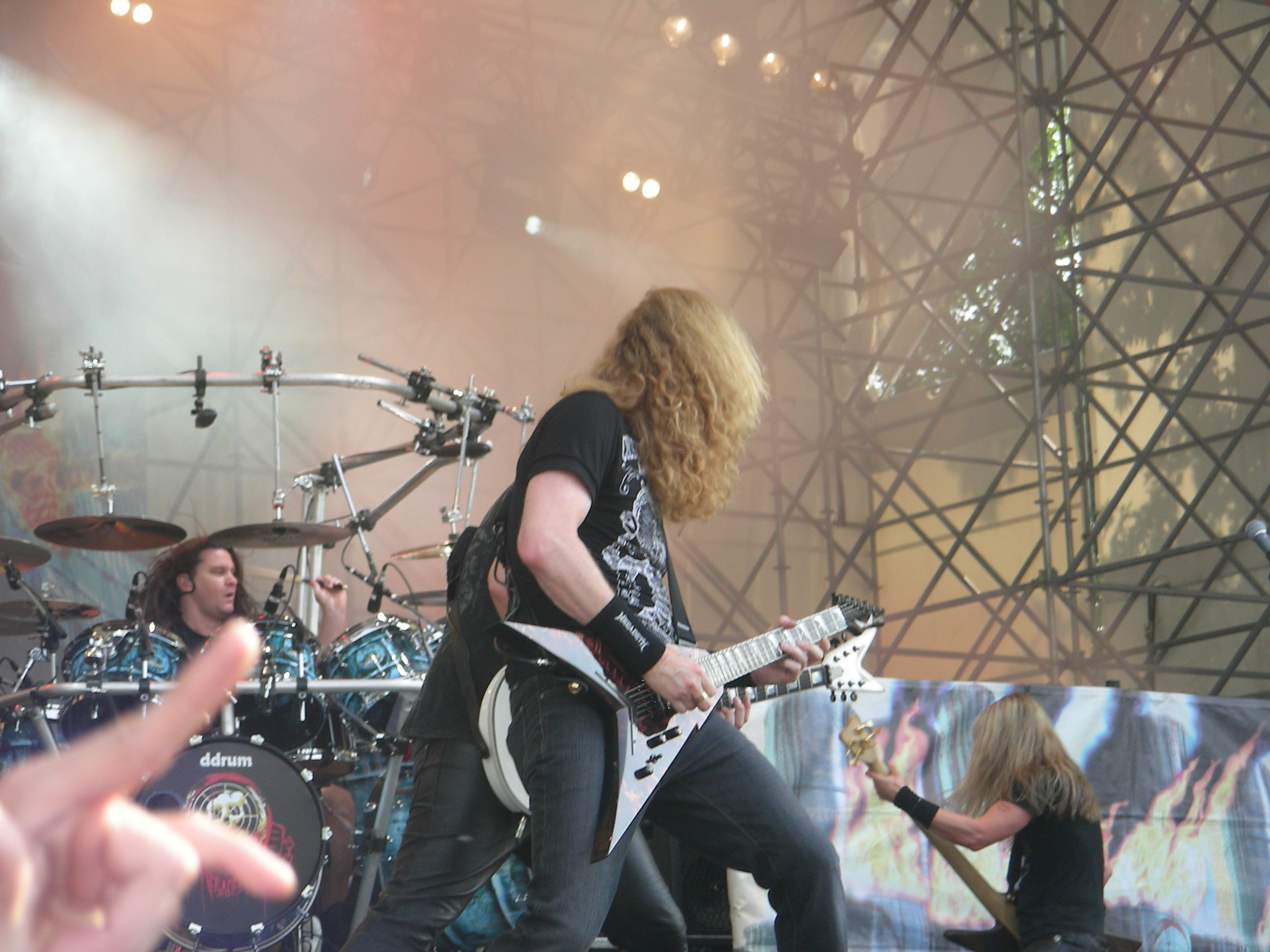 I Megadeth al Gods of Metal 2007